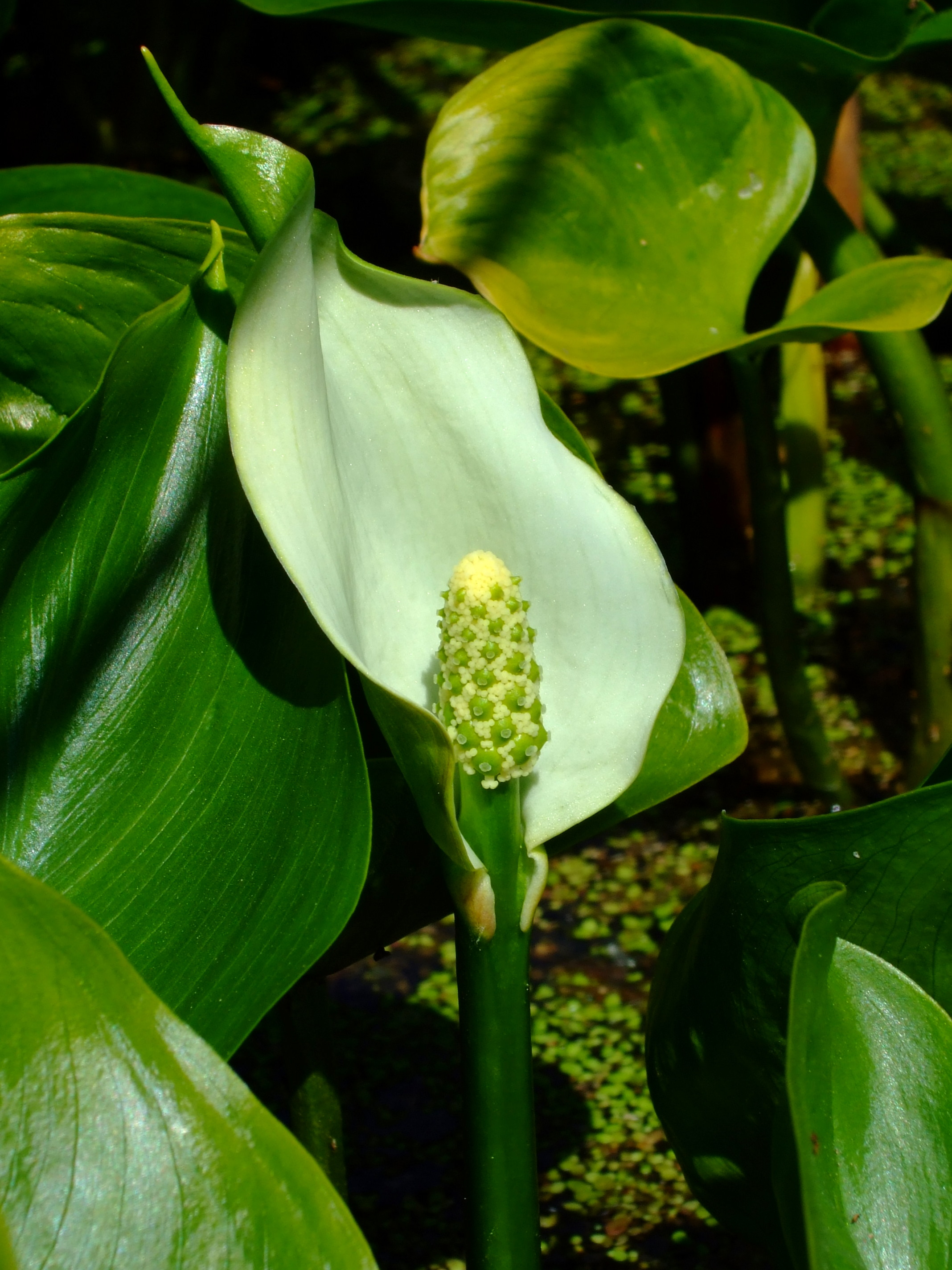 Bog Arum in Kirchwerder, Hamburg.